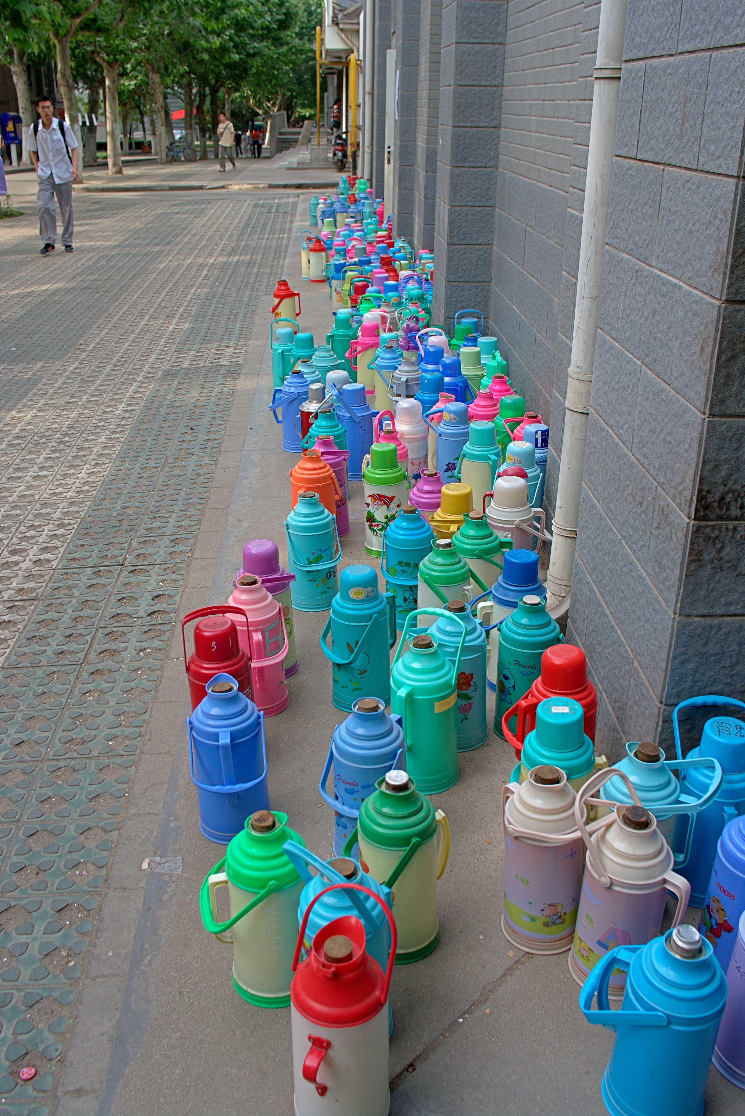 In University, those bottle are used by students to get hot water. Nanjing, China.